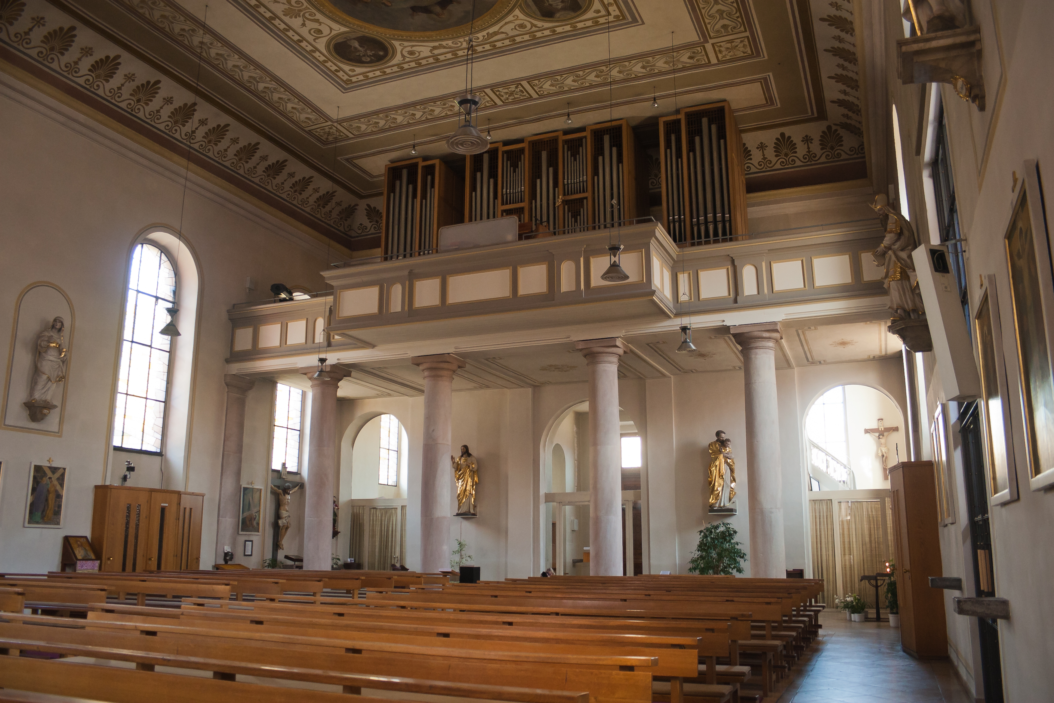 Orgelempore auf der Nordwestseite der Kirche.